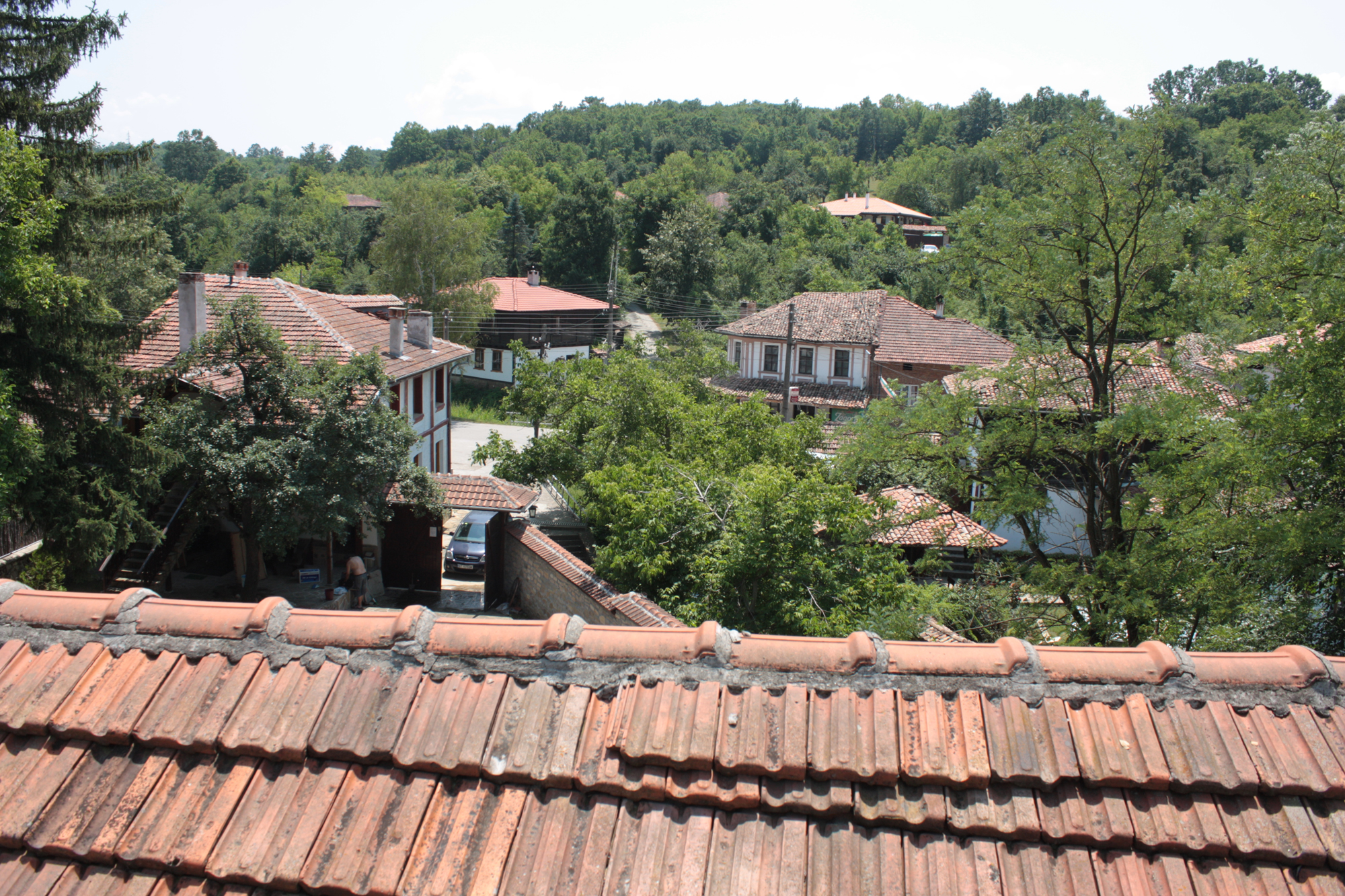 View on Yakovtsi from the churchyard